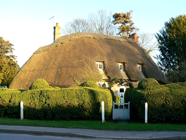 Church Cottage, Kingston Lisle, Oxfordshire (formerly Berkshire)